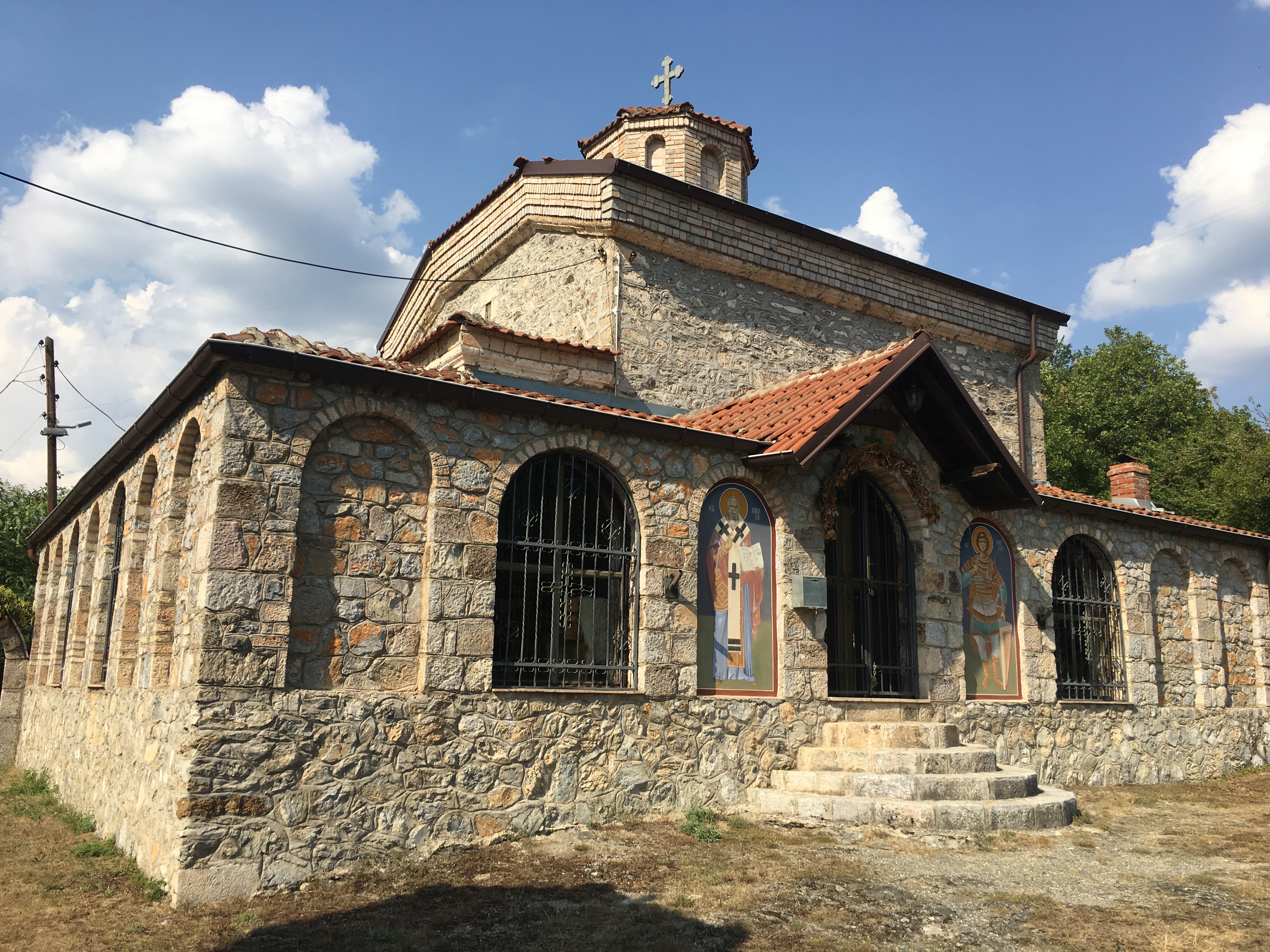 St. NIcholas Church in the village of Openica